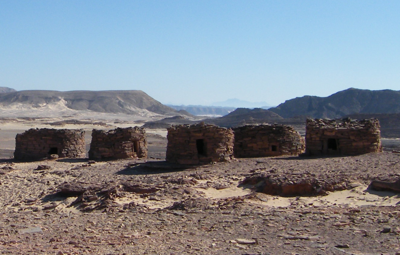 This is a photo of a group of (reputedly) 3000 year old stone huts or tombs in the south Sinai region of Egypt